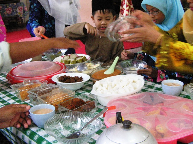 Eid Ul-Fitr meal